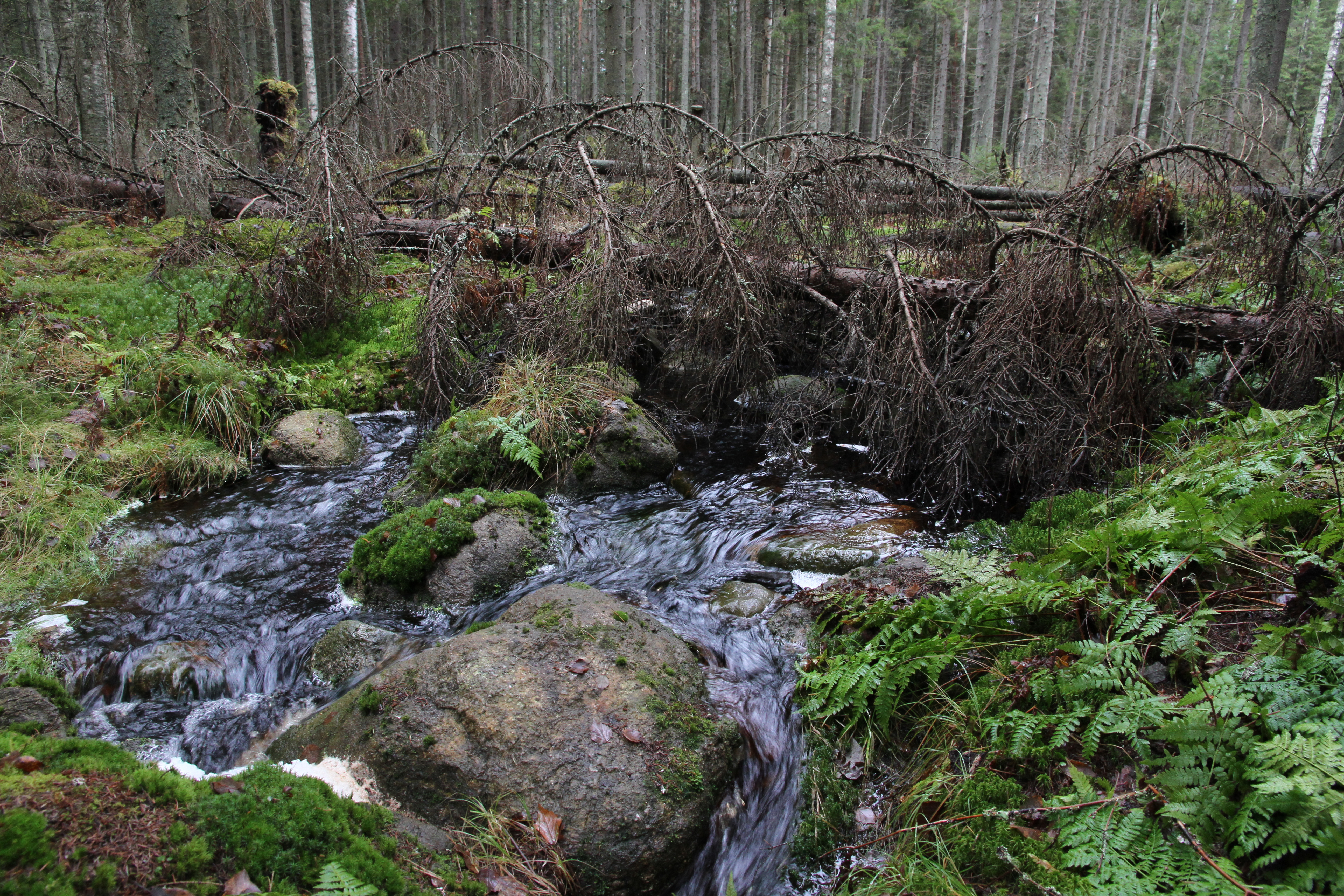 Liesjärvi National Park, Finland.